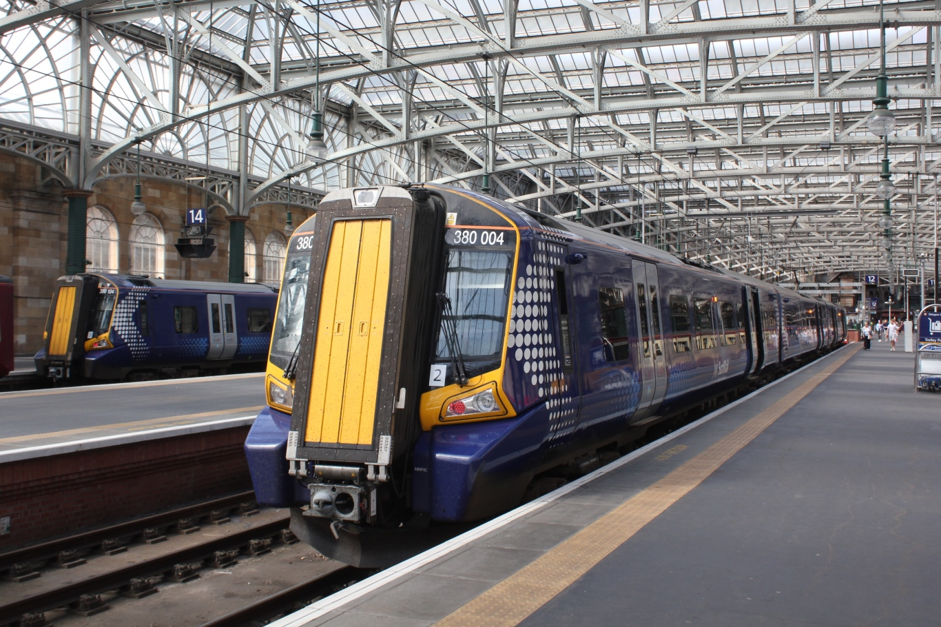 Two of Abellio ScotRail's class 380 electric units are ready to leave Glasgow Central station. 380004 is a three-car unit which is going to Wemyss Bay; behind is numerically similar 380104 which is a four-car unit going to Ayr.